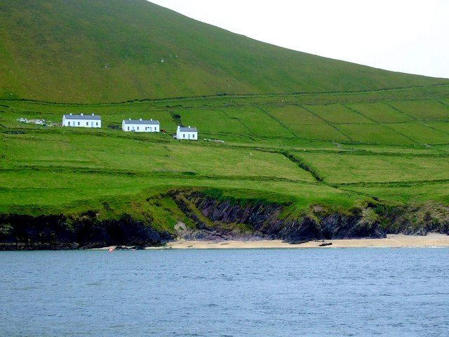 Blasket Island View of Blasket Mor from the ferry